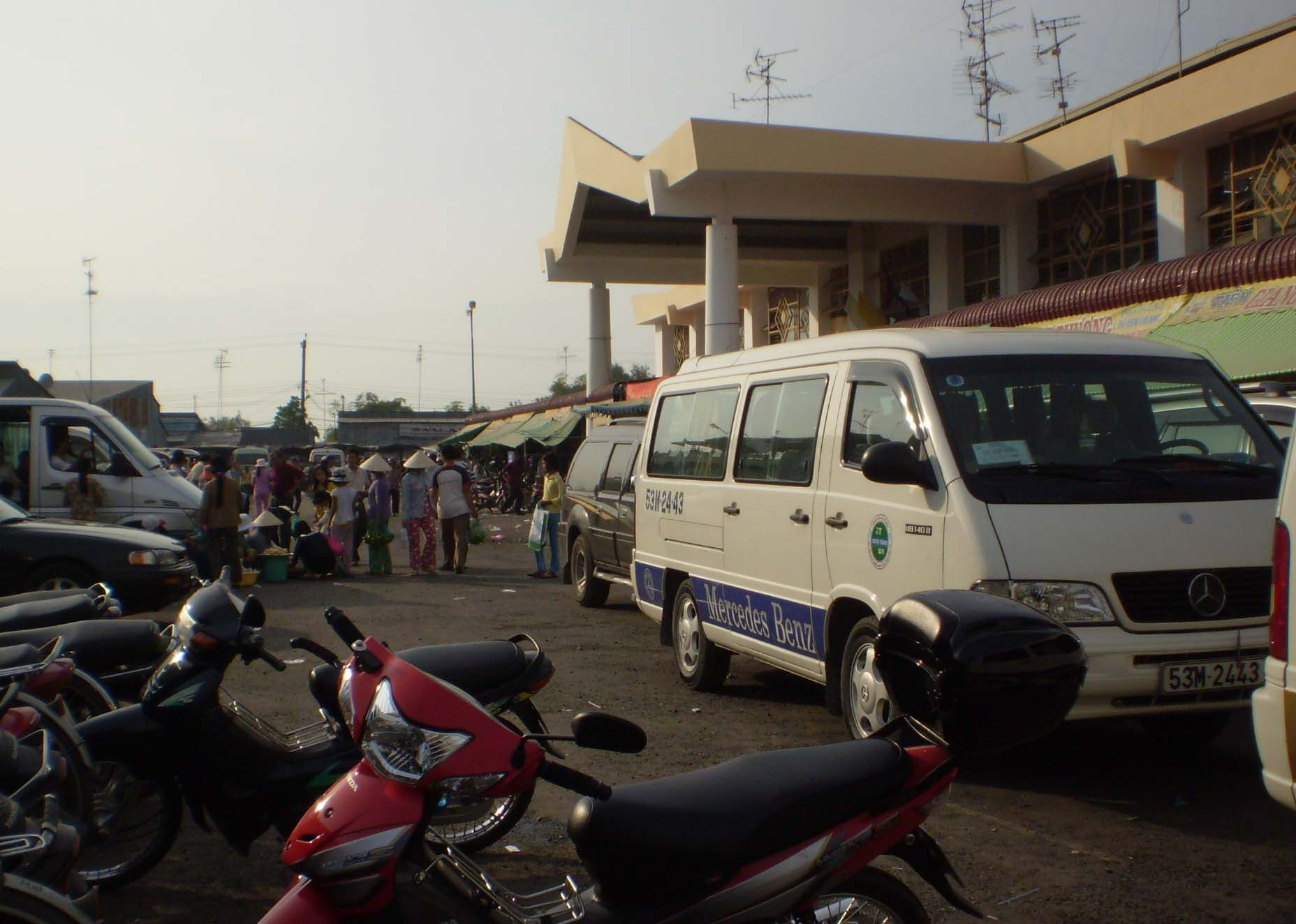 Tinh Bien, Vietnam